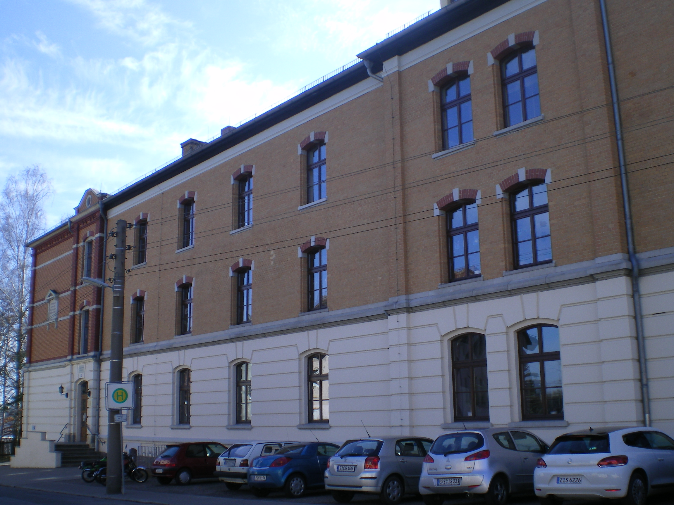 School Sahnschule in Crimitschau near Zwickau/Saxony Sahnschule in Crimmitschau im südwestsächsichen Landkreis Zwickau